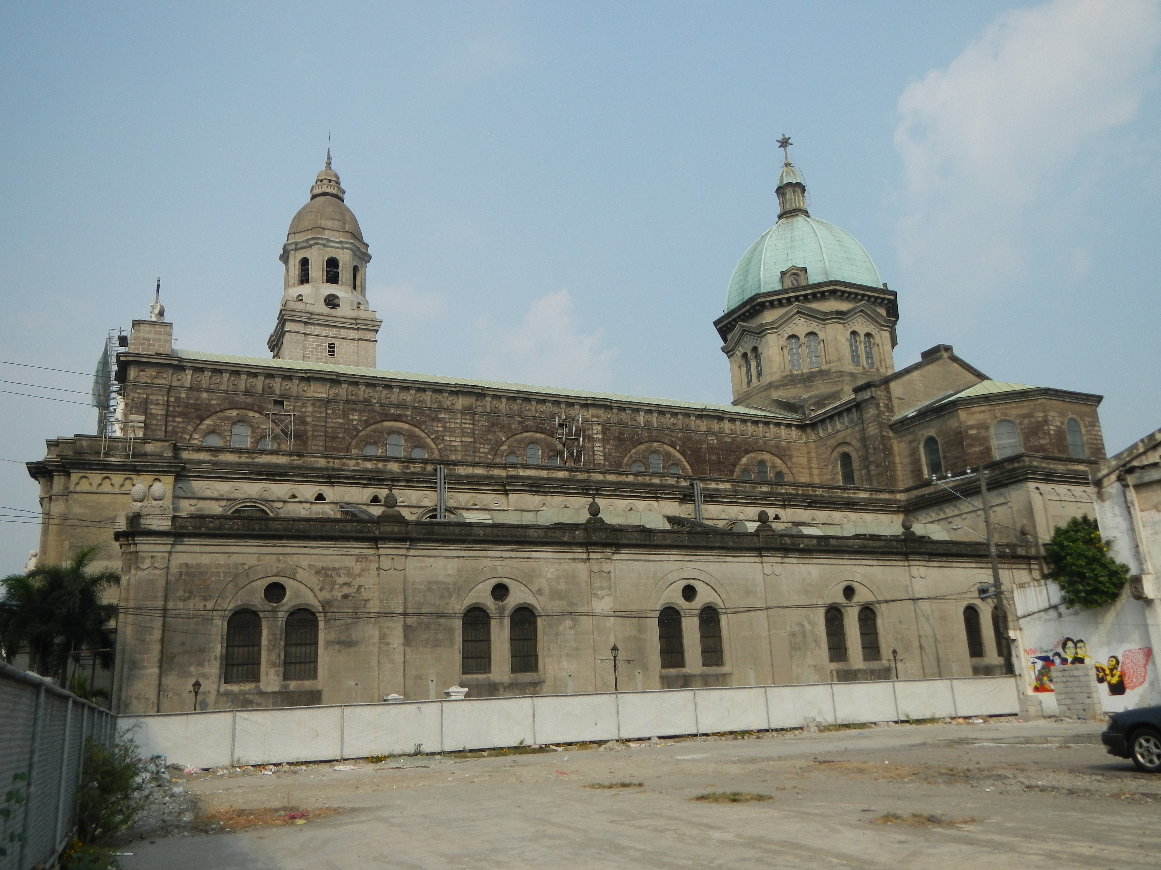 Home Development Mutual Fund (HDMF or Pag-IBIG Fund), Commission on Elections (Philippines) Palacio del Gobernador Building, General Luna Street corner Andres Soriano, Jr. Avenue, Intramuros, Manila, its Property building beside the Puerta Postigo del Palacio or Pintong Postigo, 1662, beside the Manila Cathedral.